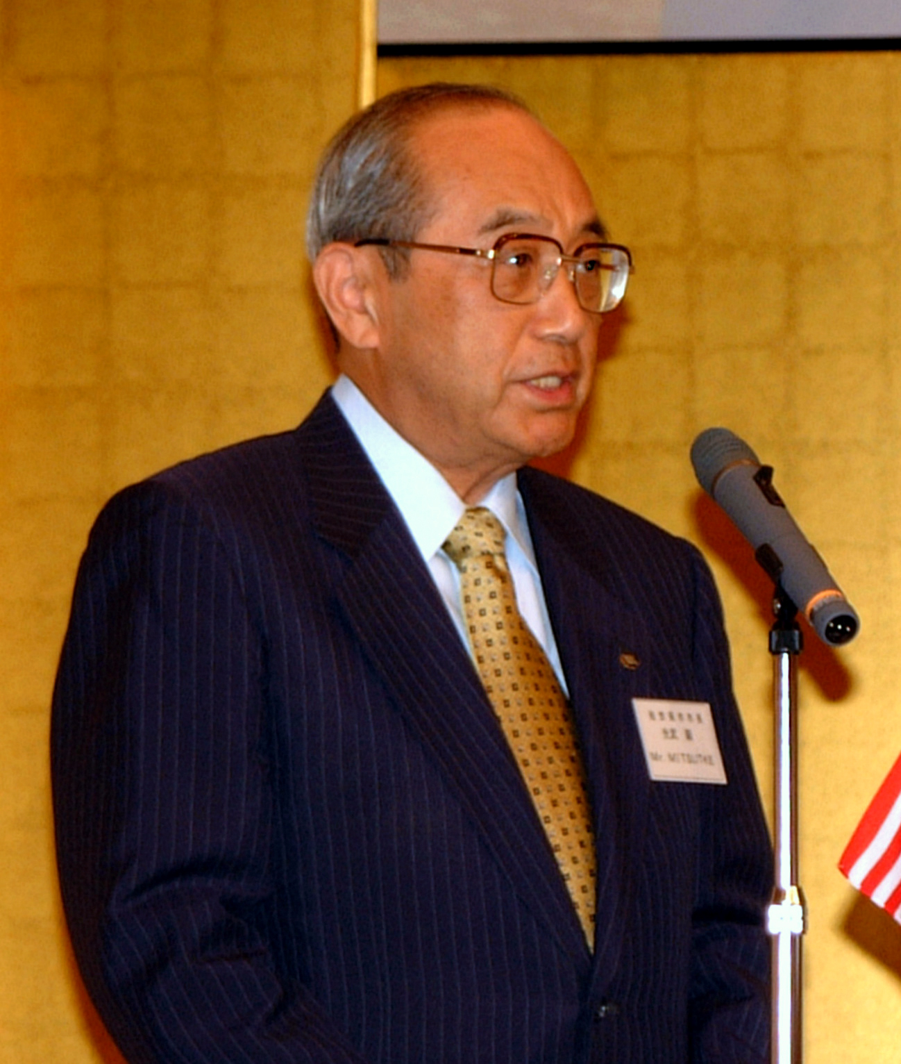 010904-N-UE944-011.Sasebo, Japan (04 AUG 2001) - Akira Mitsutake (光武顕), Mayor of Sasebo City, delivers a speech at a reception held in honor of the Chief of Naval Operations' visit to Sasebo...Official U.S. Navy Photograph by: PH2 Andrew D. Wiskow (original text)